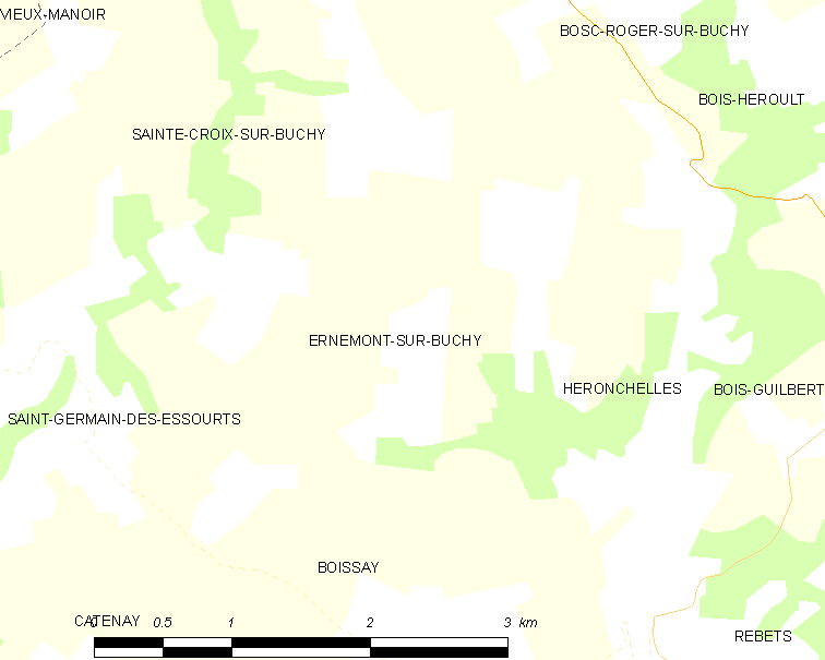 Map of French municipality Ernemont-sur-Buchy